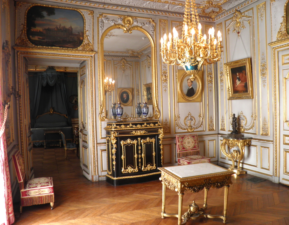 Guise Room. Petits appartements, château de Chantilly, Oise, France.